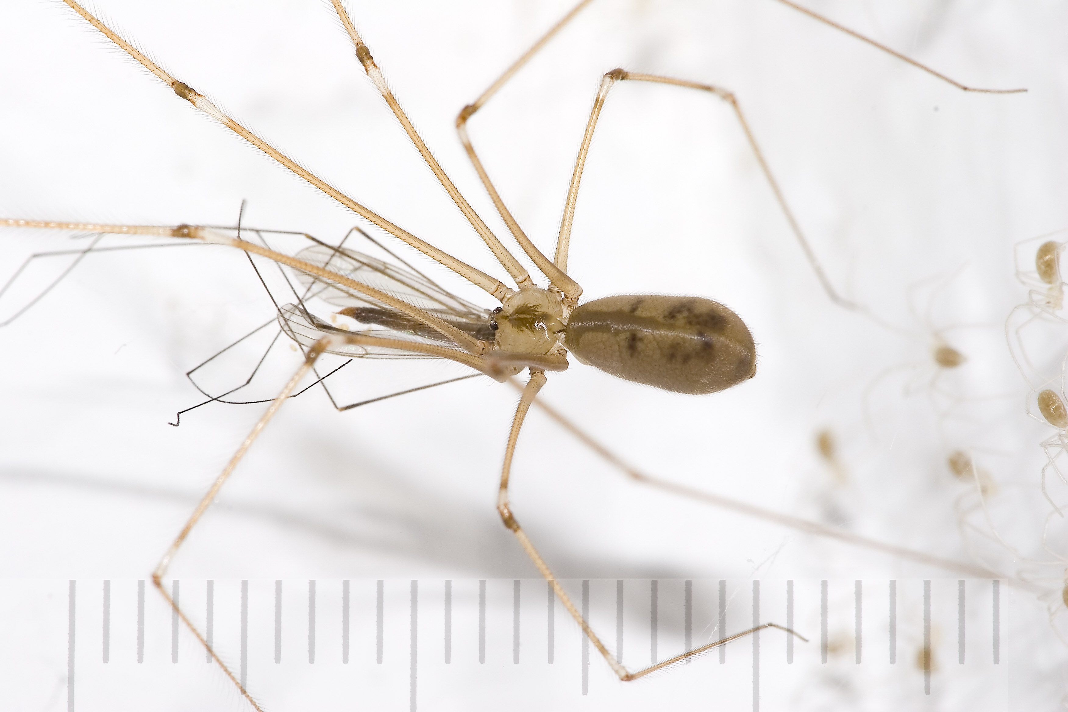 Pholcus phalangioides; Many thanks to user:Brummfuss and user:DocTaxon for determination!